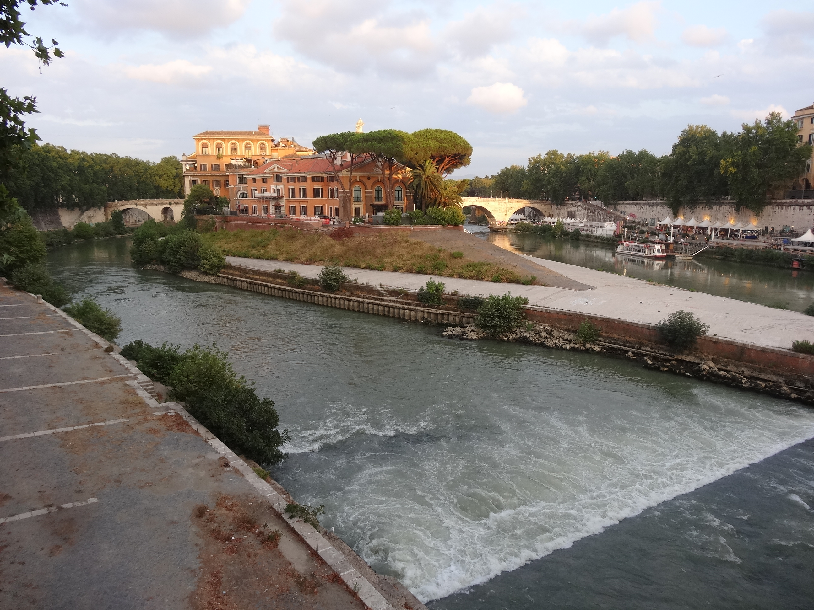 isola tiberina and weir